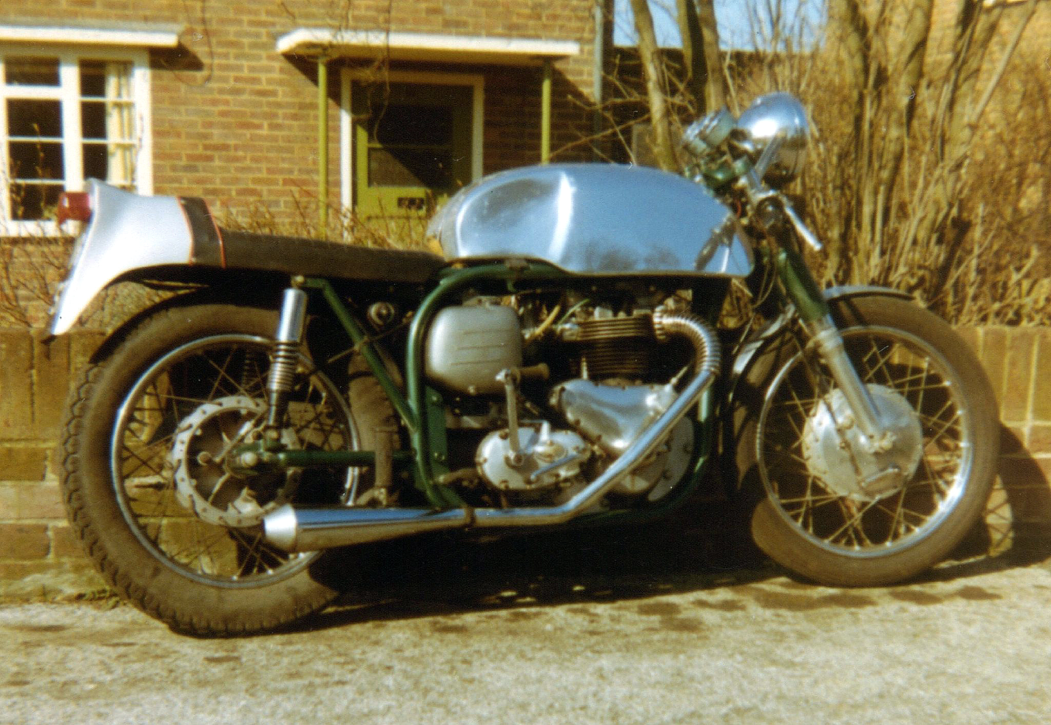 Triton motorcycle using a Pre-unit construction Triumph engine twin-cylinder engine in a Norton "Featherbed" frame.